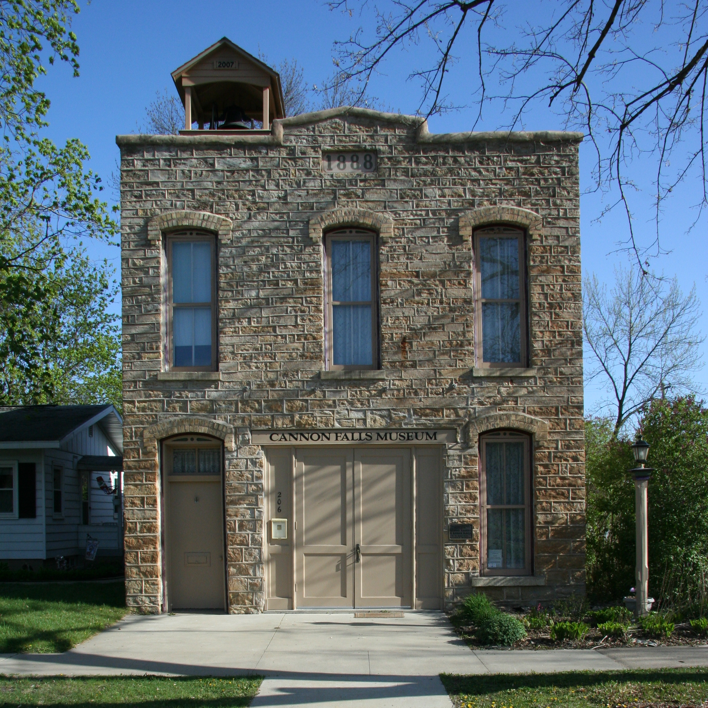 1888 Firemen's Hall, Cannon Falls Museum, 206 Mill Street, Cannon Falls, Minnesota